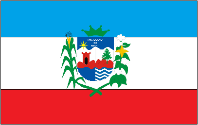 flag of amb